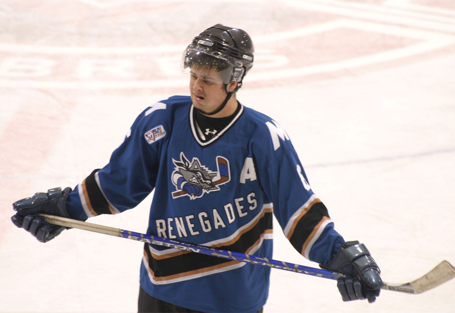 Defenceman Matt Marasco of the Marathon Renegades between plays at a game against the Fort Frances Jr. Sabres on 16 Nov. '07